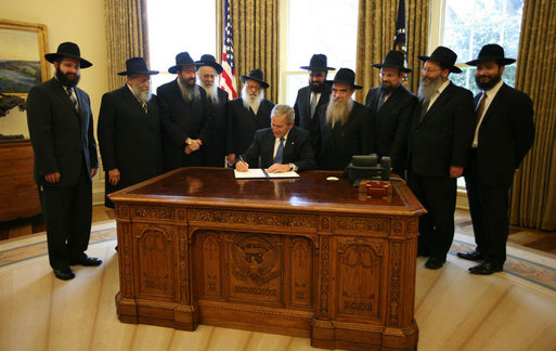 With Chabad rabbis from across the world looking on, President George W. Bush signs a presidential proclamation in honor of Wednesday's Education and Sharing Day, and highlighting the important work of the Chabad Lubavitch movement. The Chabad Lubavitch movement promotes global education, and since 1978, every President has signed an Education and Sharing Day proclamation.